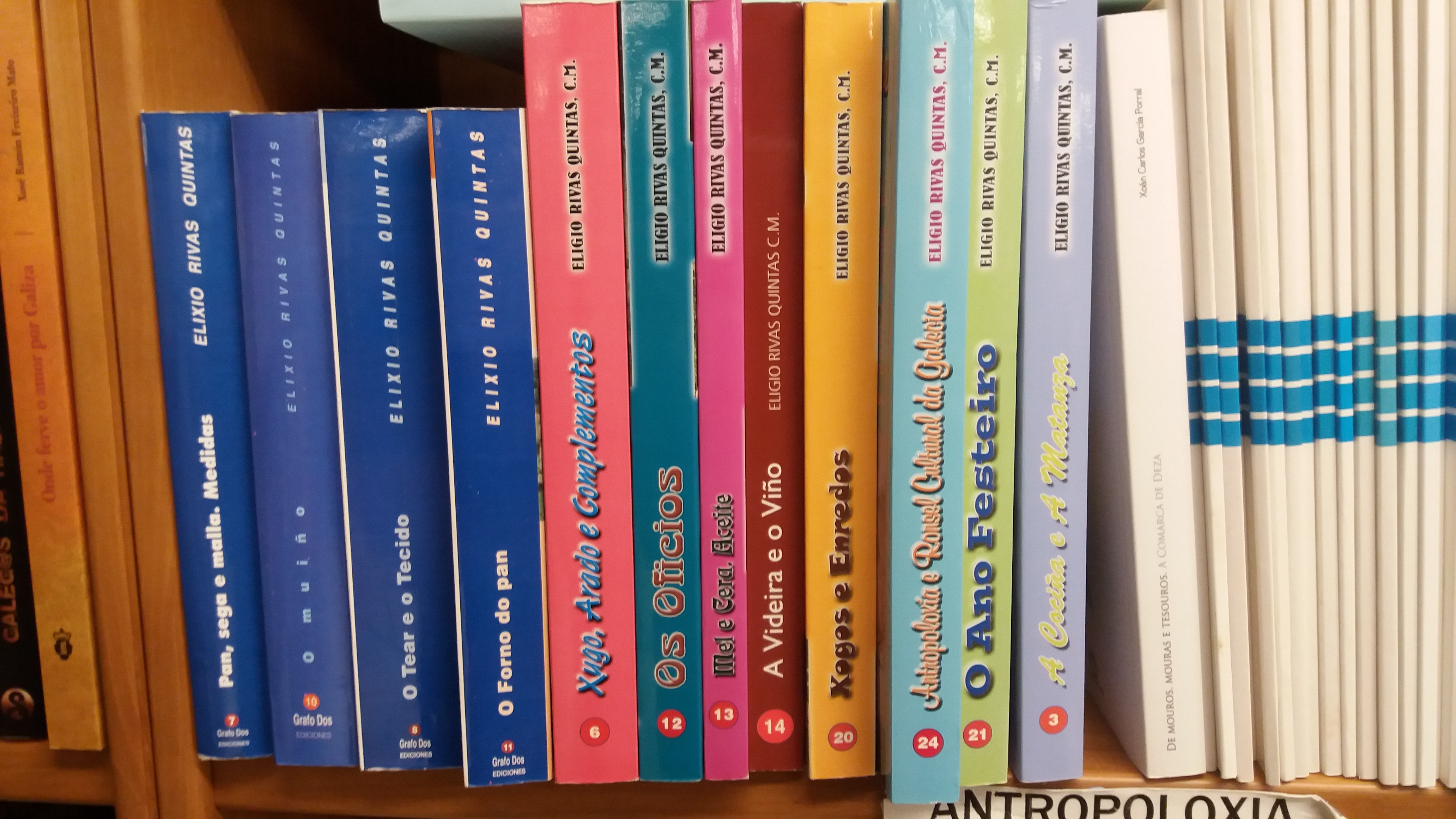 Book spines by Eligio Rivas Quintas